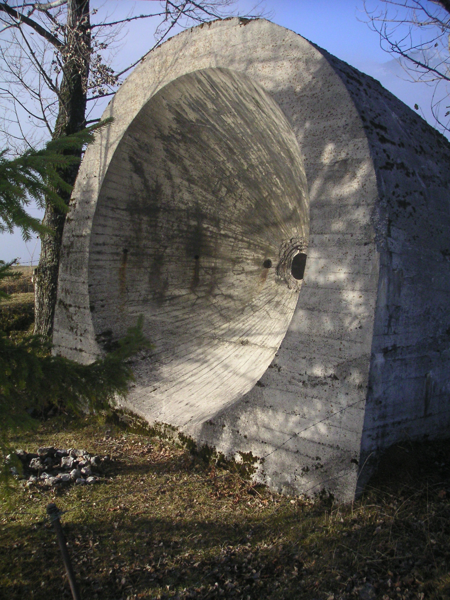 Concrete shell for receiving a parabolic dish antenna for high-frequency research (radar) uaf Sudelfeld at the Bavarian Zell / Upper Bavaria (auto-translation).